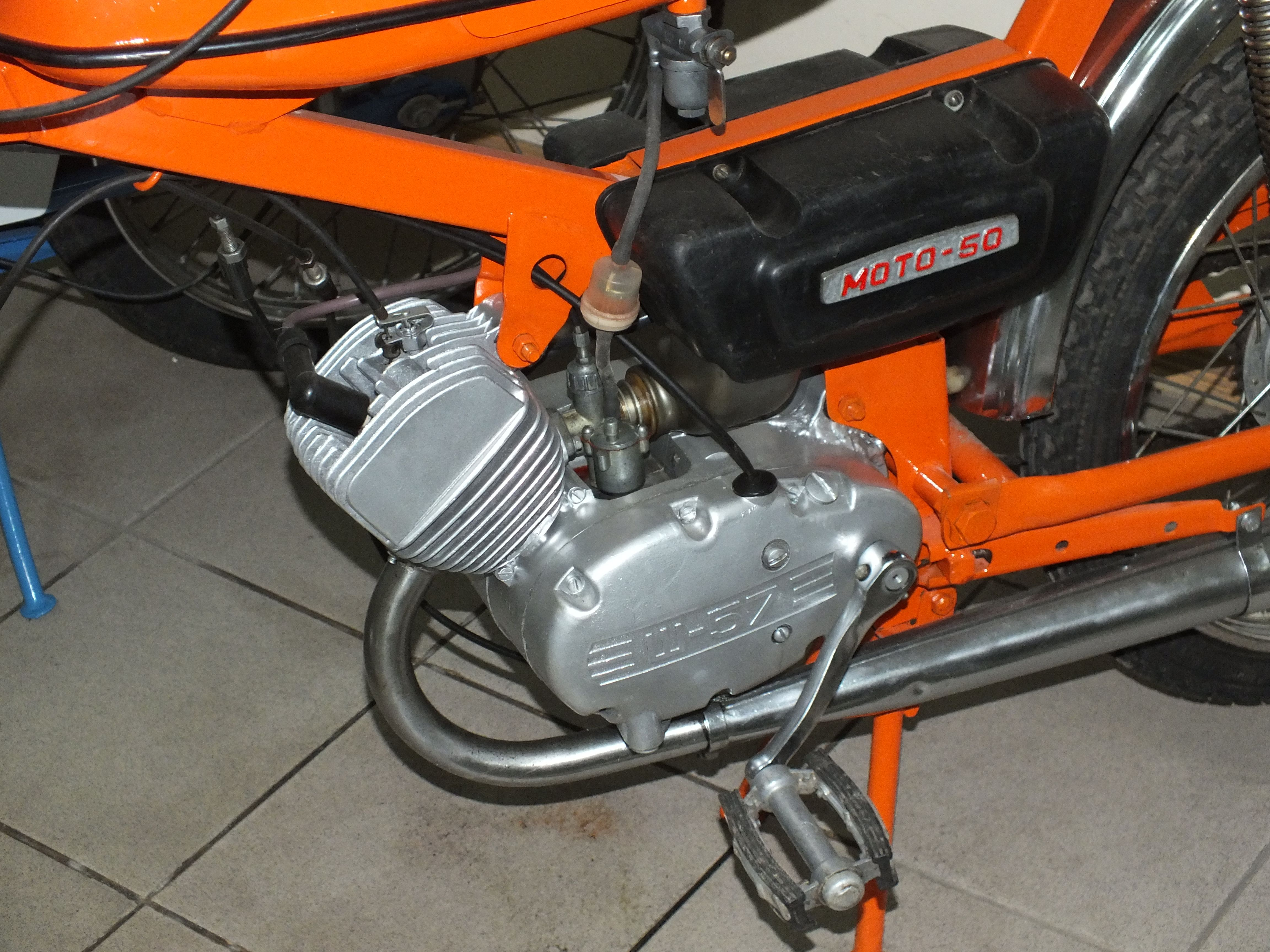 Motorcycles of Russia